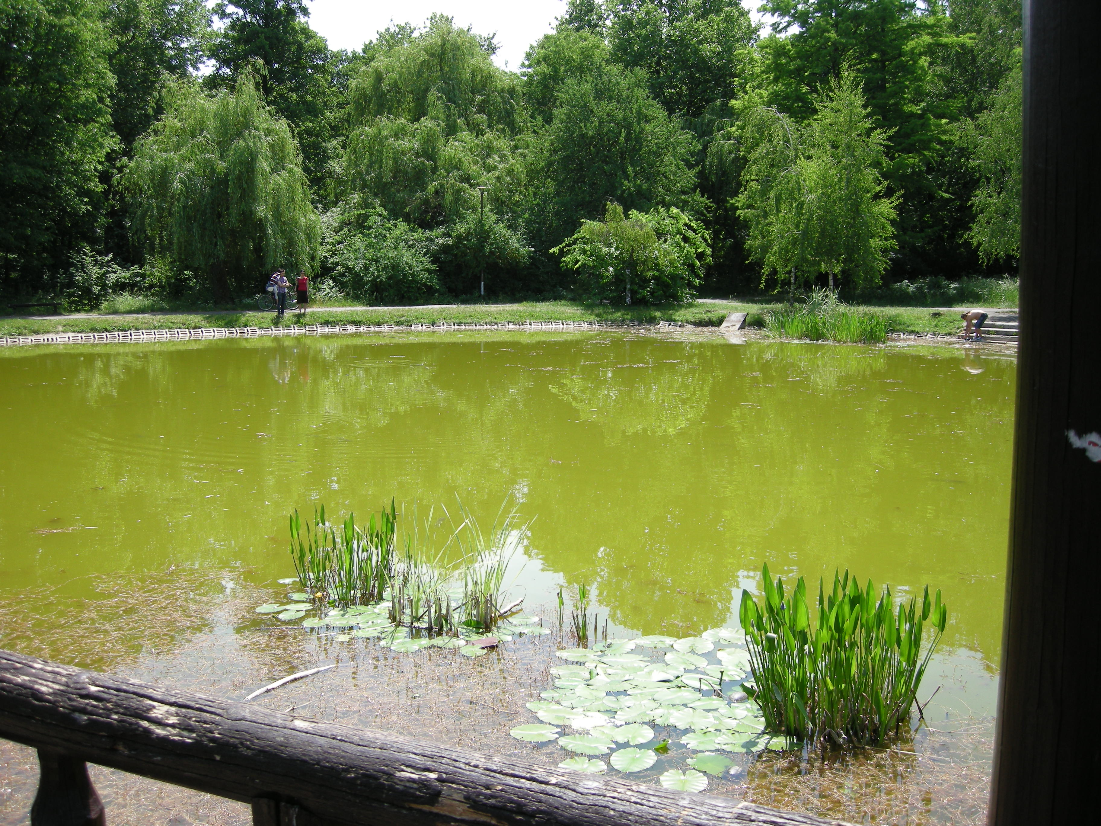 Debrecen Nagyerdő (Greatwood) City Park, the first Nature Reserve in Hungary